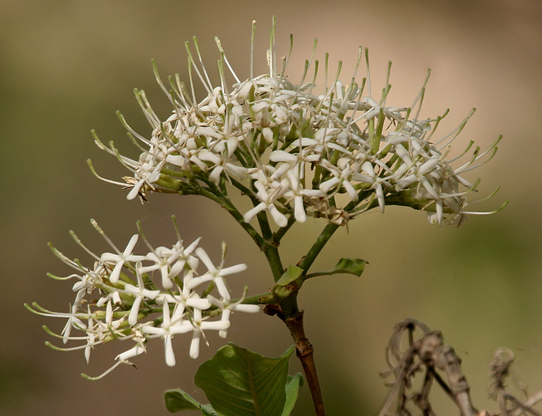 Pavetta crassicaulis - Indian paveta, Papdil, Indian Pellet Shrub, Kankara, Kathachampa, Kukurchura, Papat, Kattukkaranai, Karanai, Mallikamutti, Papidi, Pavati, Jui, Paniphingi, Sam-suku or Kakachdi at Lotus Pond, Hyderabad, India.